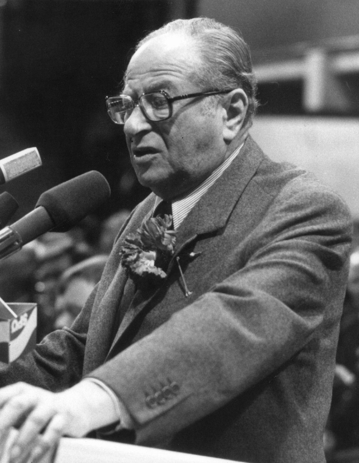 Austrian Chancellor